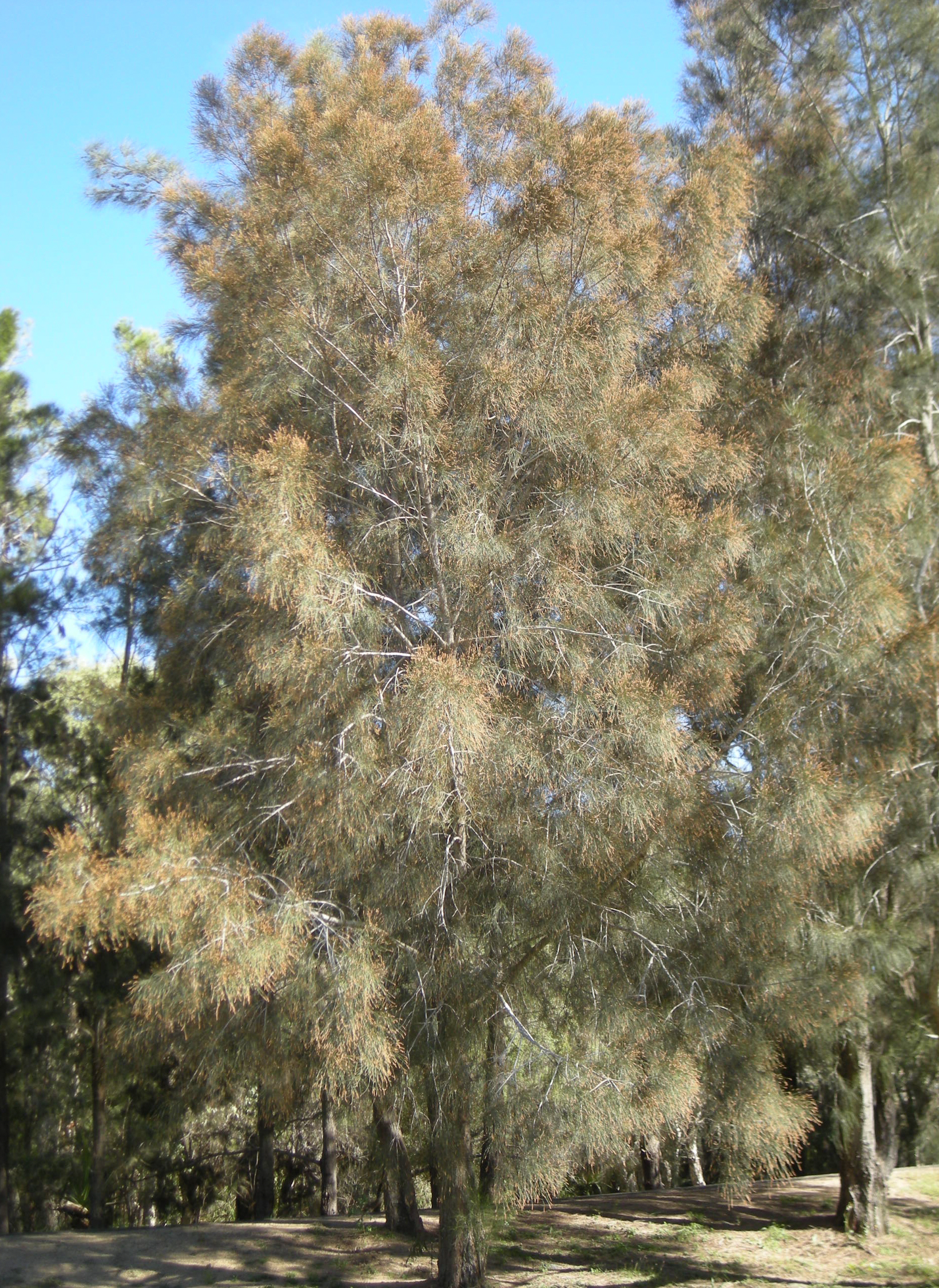 Casuarina cunninghamiana tree in flower. Mount Archer National Park, Rockhampton, Queensland.